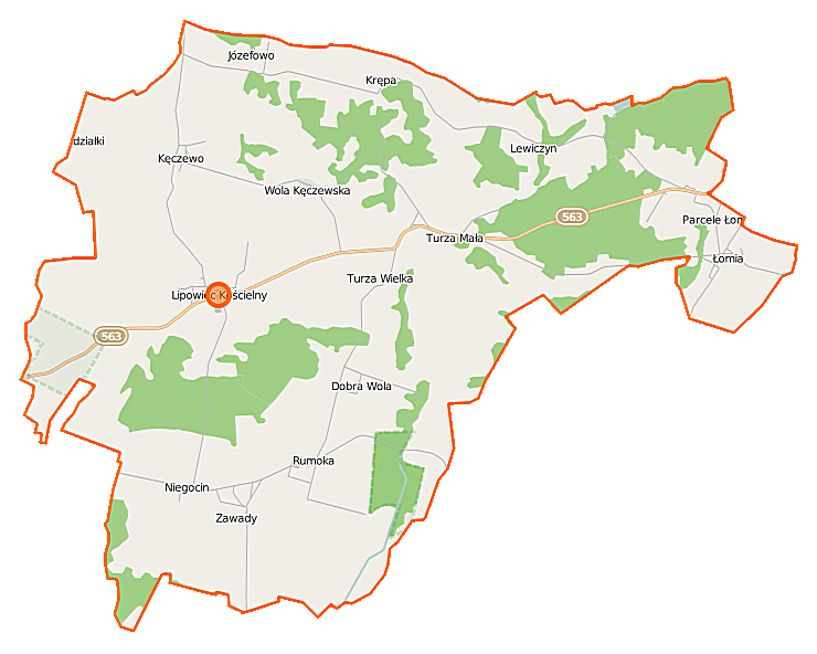 Map of Gmina Lipowiec Kościelny, Poland This map of Lipowiec Kościelny (gmina) was created from OpenStreetMap project data, collected by the community. This map may be incomplete, and may contain errors. Don't rely solely on it for navigation. Border coordinates53.159320.1084←↕→20.362153.0371